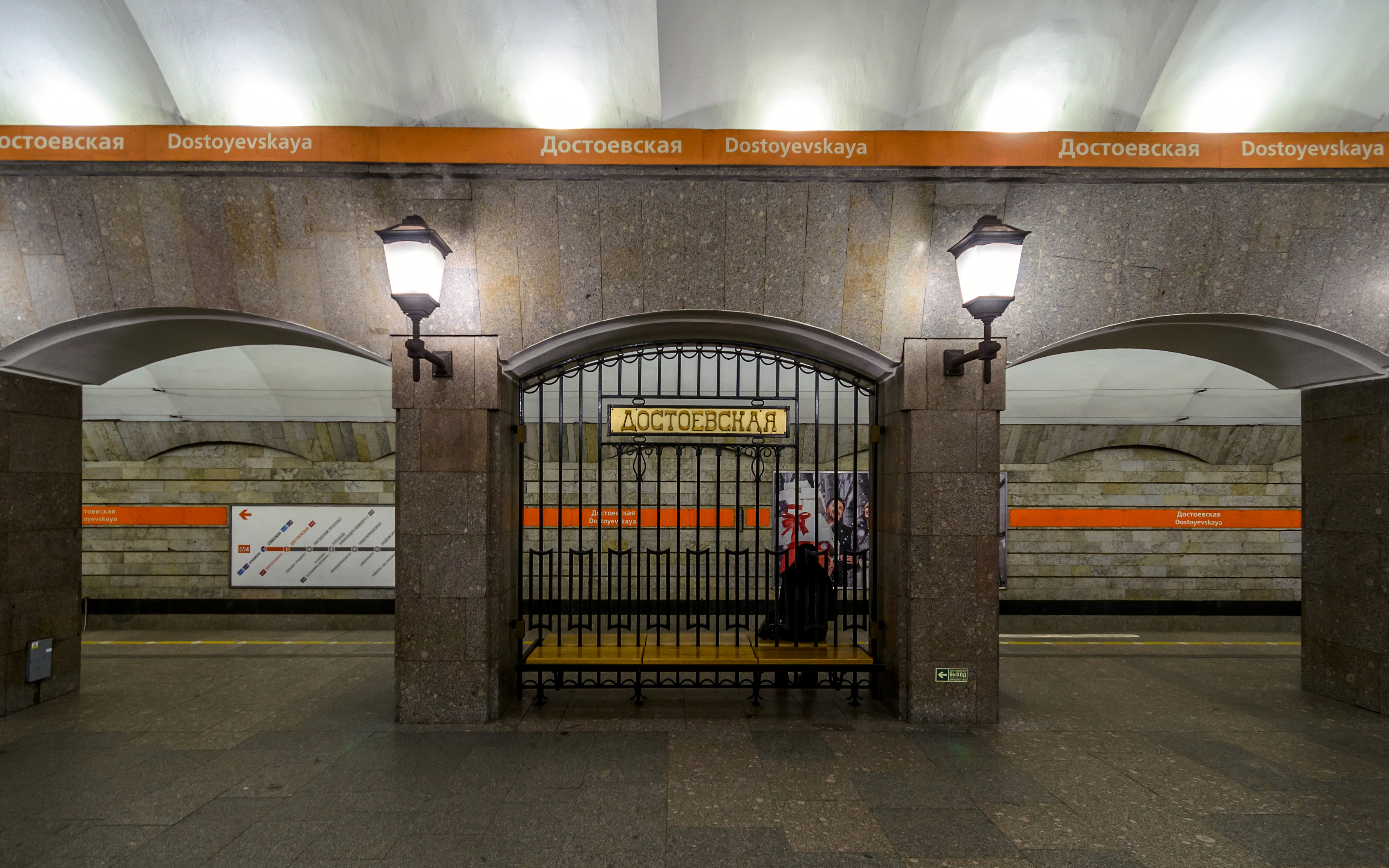 Dostoevskaya station of Saint Petersburg Metro